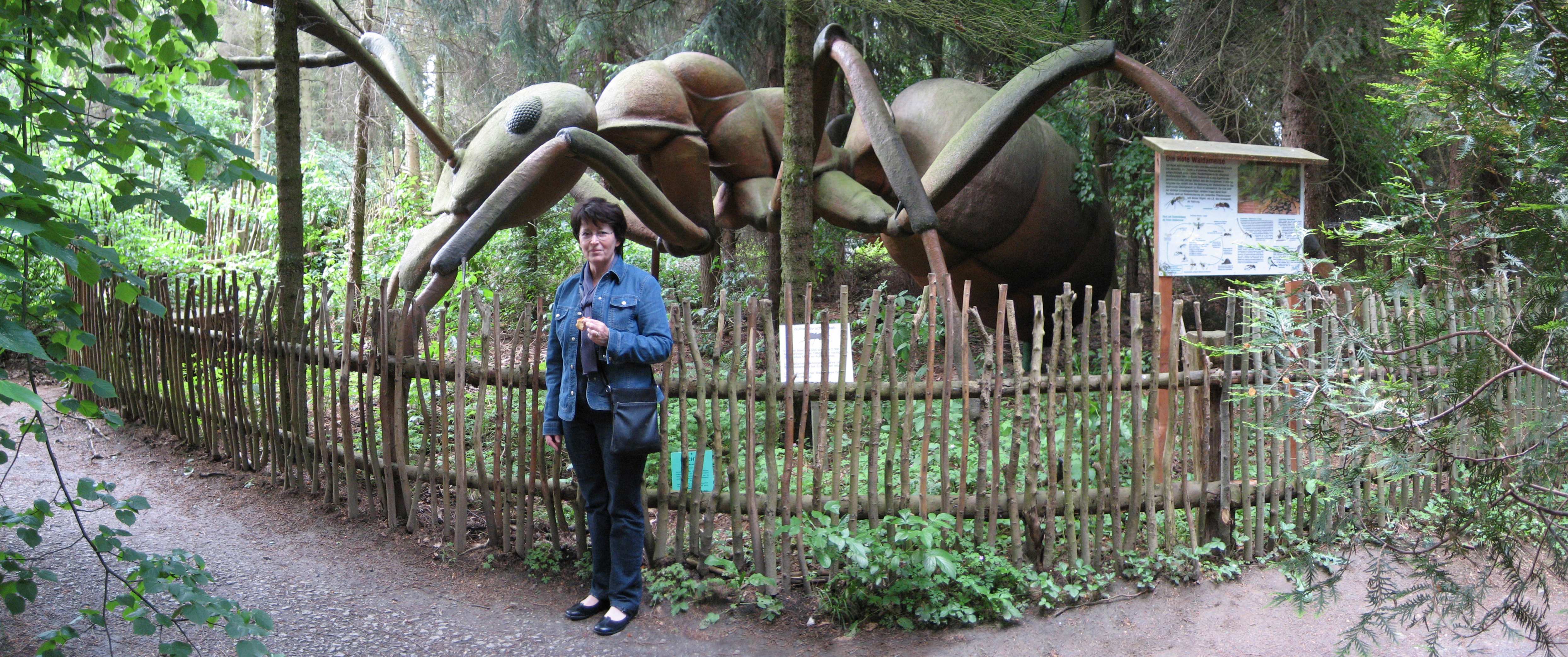 Theme park, giant ant